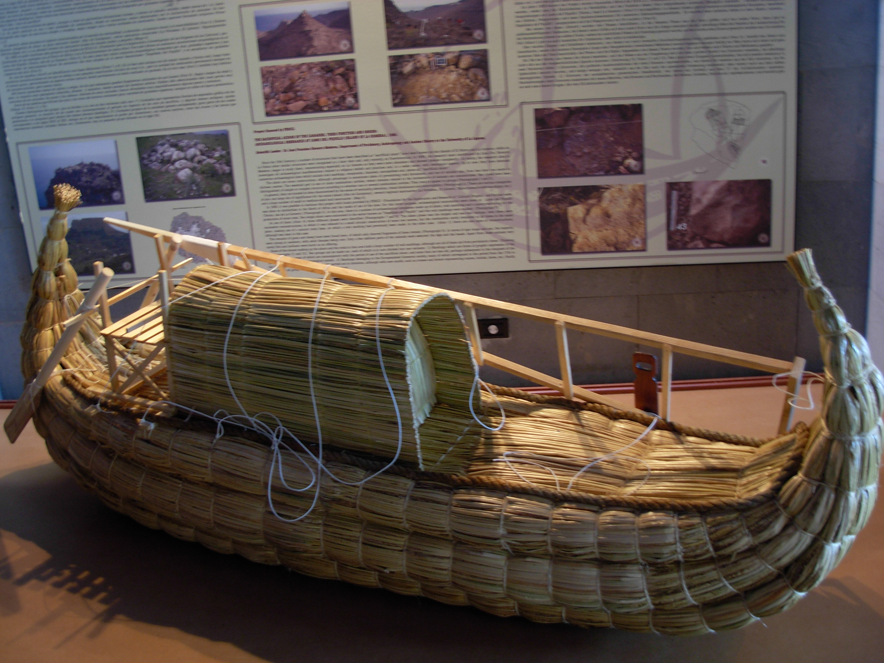 Pyramids of Güímar Museum, Tenerife. Model of the Ra I. Sailed in 1969 for 56 days through Atlantic Ocean (5000km).